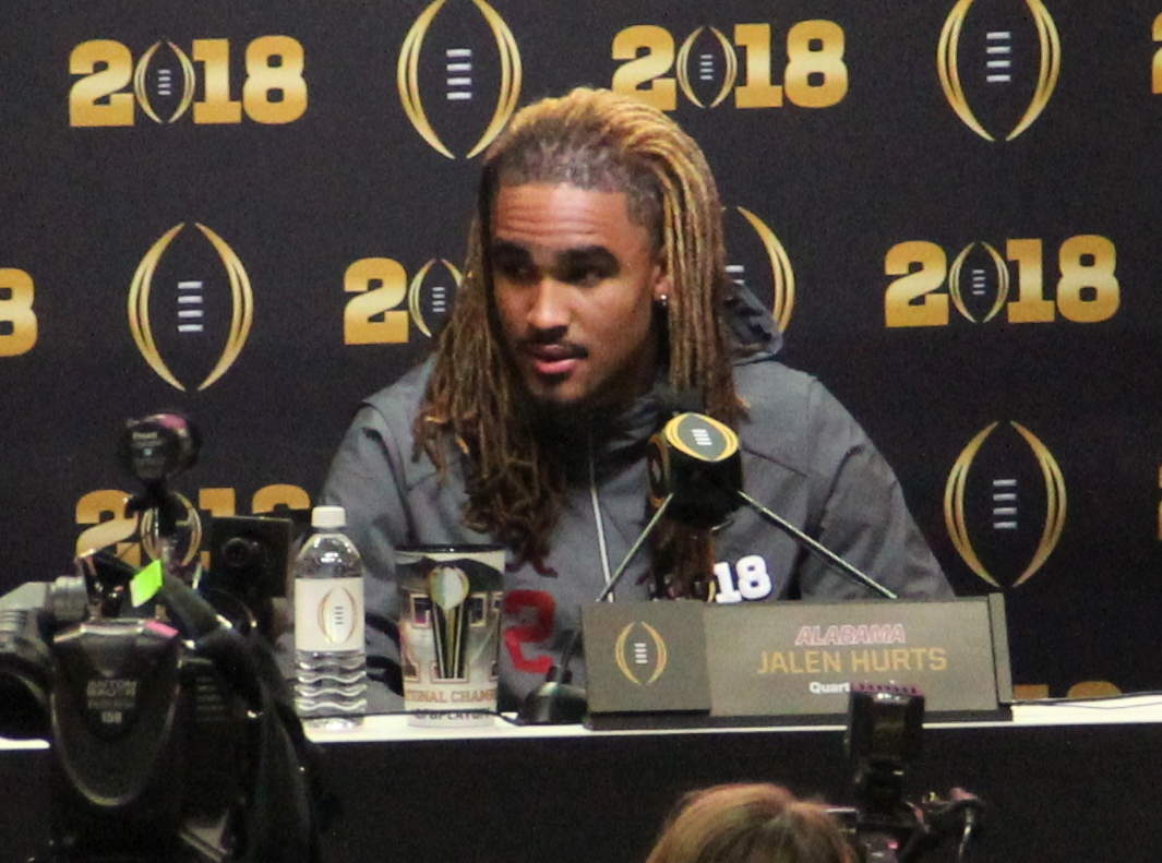 Jalen Hurts at media day, 2018